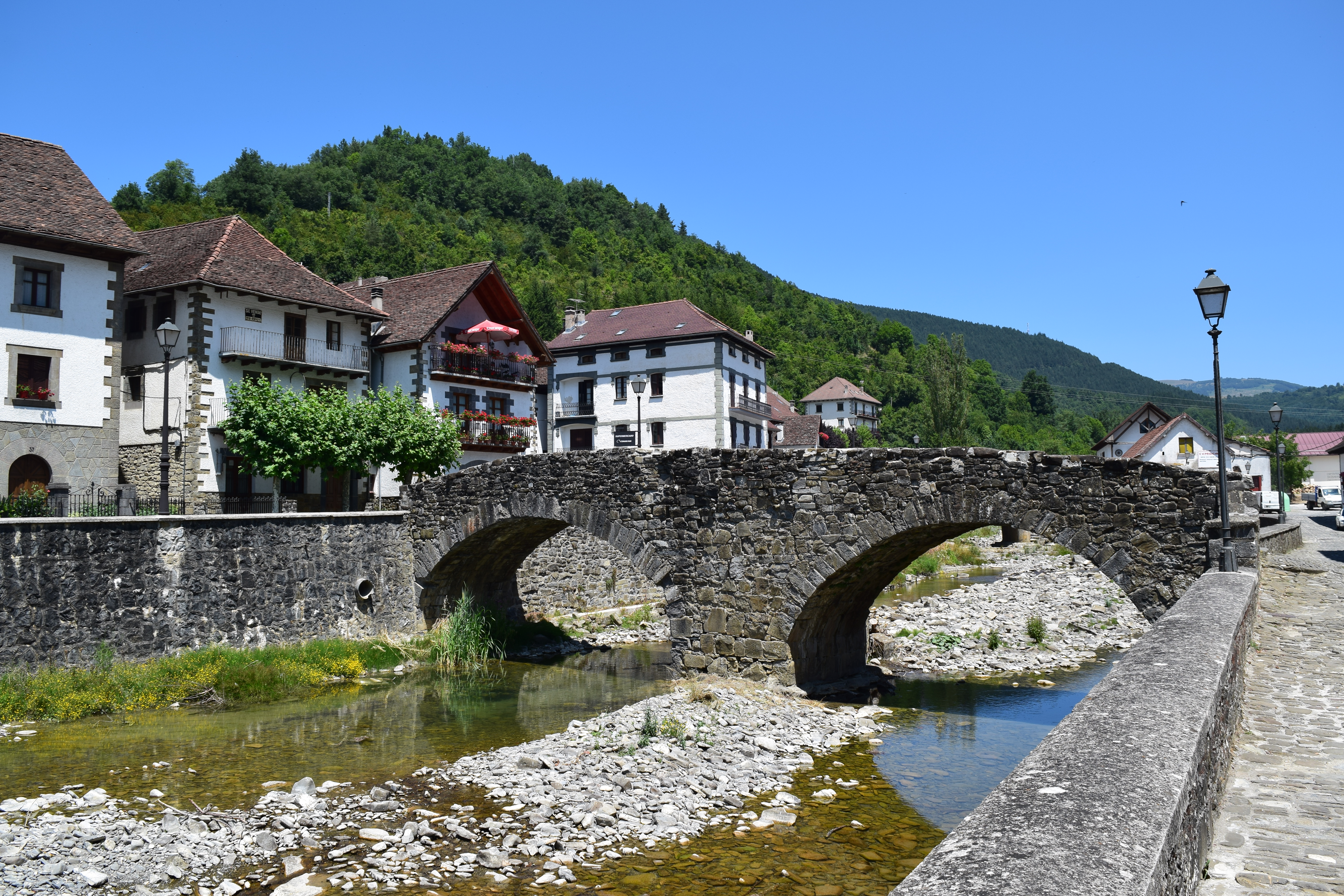 Ochagavia (Navarra)